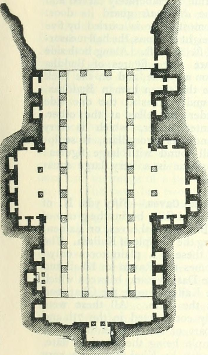 Identifier: handbooktravelle00john Title: A handbook for travellers in India, Burma, and Ceylon . Year: 1911 (1910s) Authors: John Murray (Firm) Subjects: India -- Guidebooks Burma -- Guidebooks Sri Lanka -- Guidebooks Publisher: London : J. Murray Calcutta : Thacker, Spink, & Co. Text Appearing Before Image: columns which support it havea drooping leaf or ear over theircircular necks. In the N. end of theverandah is a chapel with a Buddhaseated on a lotus supported by snake-hooded figures, and on the right of thisis a pictorial litany.^ No. 4 is a muchruined vihara, now measuring 35 ft.by 39 ft. deep. At the inner end isa cross aisle, beyond which a shrine,with a statue of Buddha under theBo-tree, and two cells were excavated;the columns are similar to those inNo. 2. No 5, known as the Maha-wara, and formerly as the Dherwaracave, is again reached by steps. Itis the largest single-storeyed viharacave here, measuring 58^ ft. by 1171 See p. 41. ROUTE 6. KLLORA—BUDDHIST CAVES 75 ft. deep. The roof is carried by tworows of ten columns, similar to thosein No. 2, with two more betweenthem at each end, and two stonebenches run down the cave parallelto the ranges of pillars. On eitherside of the cave is a recess with twopillars and a number of cells, and atthe end is a shrine. From its peculiar Text Appearing After Image: the goddess Saraswati on the S. wallof the antechamber deserves notice.Beyond it is yet a third hall measur-ing 27 ft. b)- 29 ft., wi;h three cells onthe E. and N. sides. No. 9 lies inthe N.W. angle beyond the thirdhall, and is reached from the centralhall of No. 6 ; it has a well-carvedfafade. No. 7, to which the stairs in